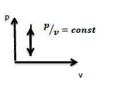 when V is constant